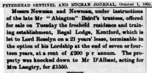 Press cutting from newspaper referring to actress Lillie Langtry buying a racing stable and house in Newmarket England.